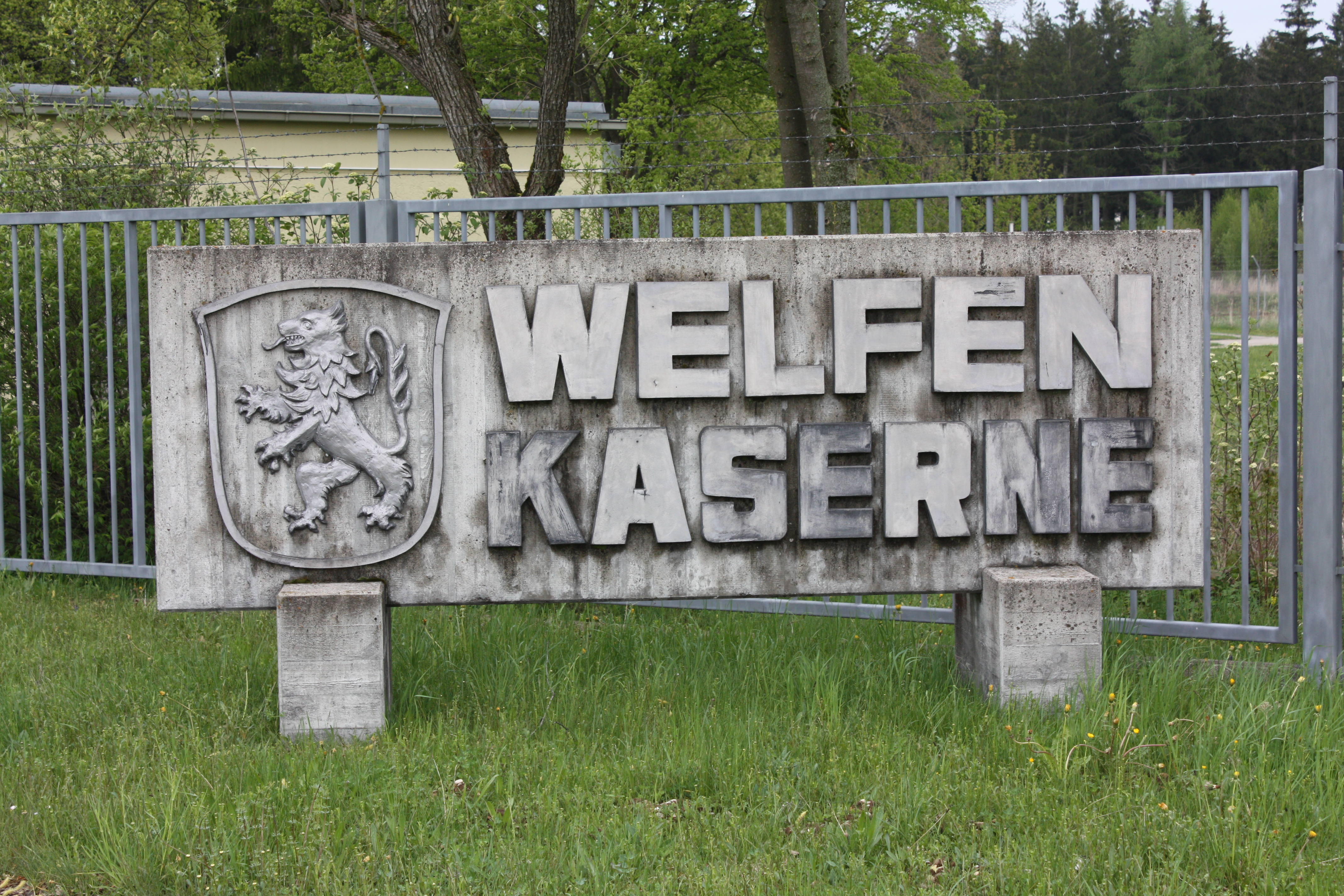 Welfenkaserne, Landsberg/Lech, Germany